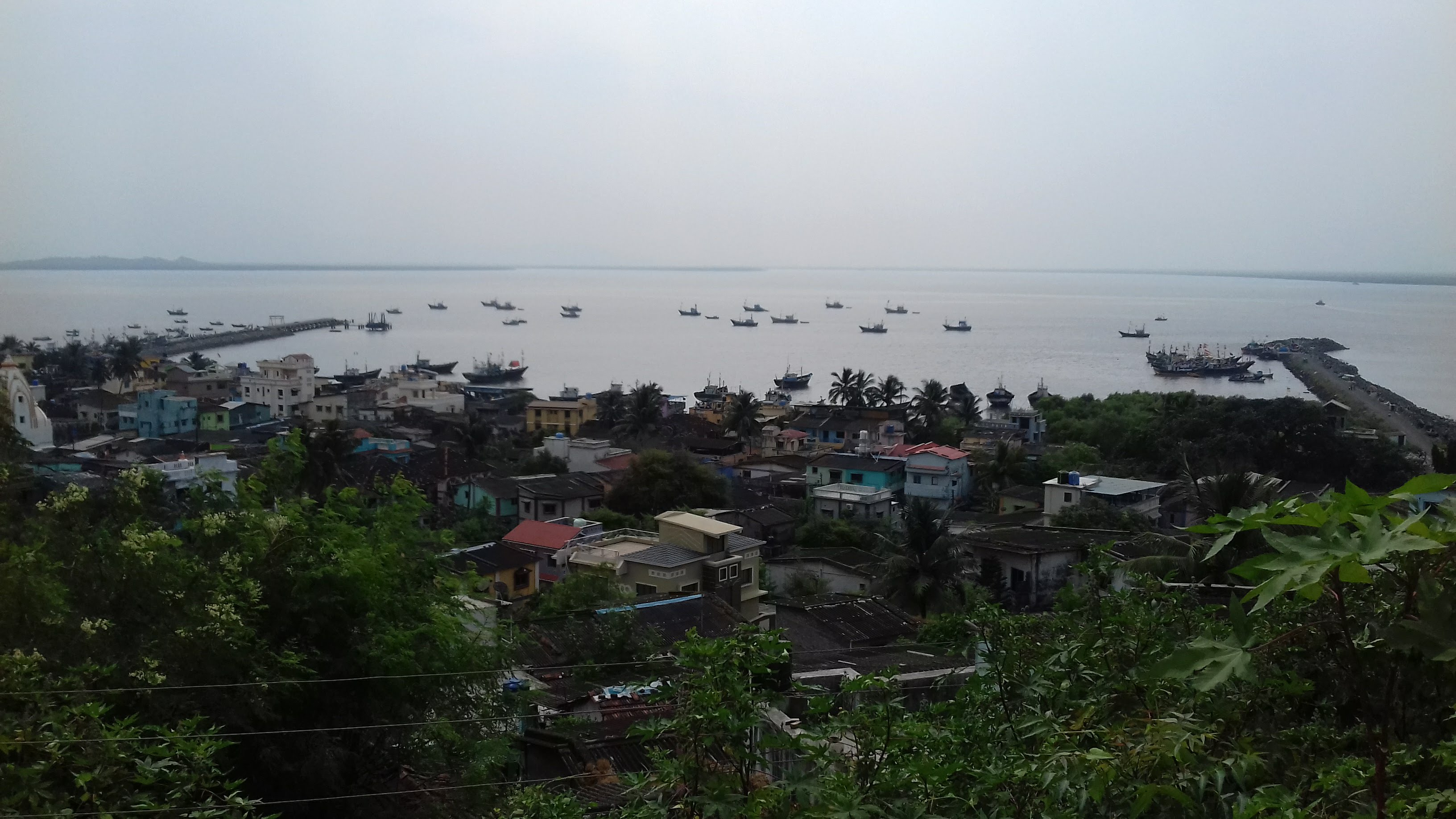 The Fishermens Village and the Western most tip of Navi-Mumbai